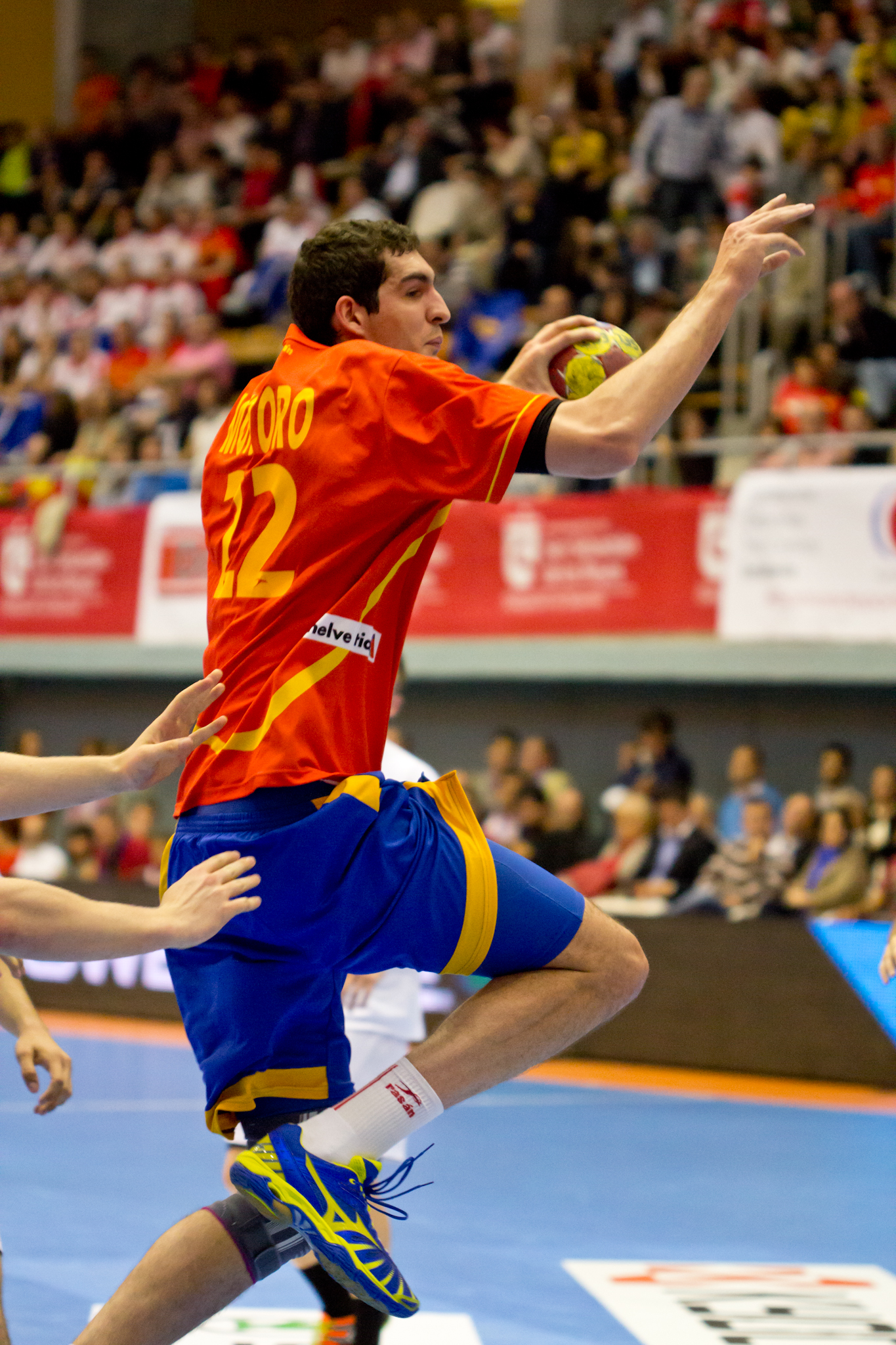 Spain national handball team at the Spain Handball All Star Game 2013, in San Sebastián de los Reyes, Madrid, Spain.